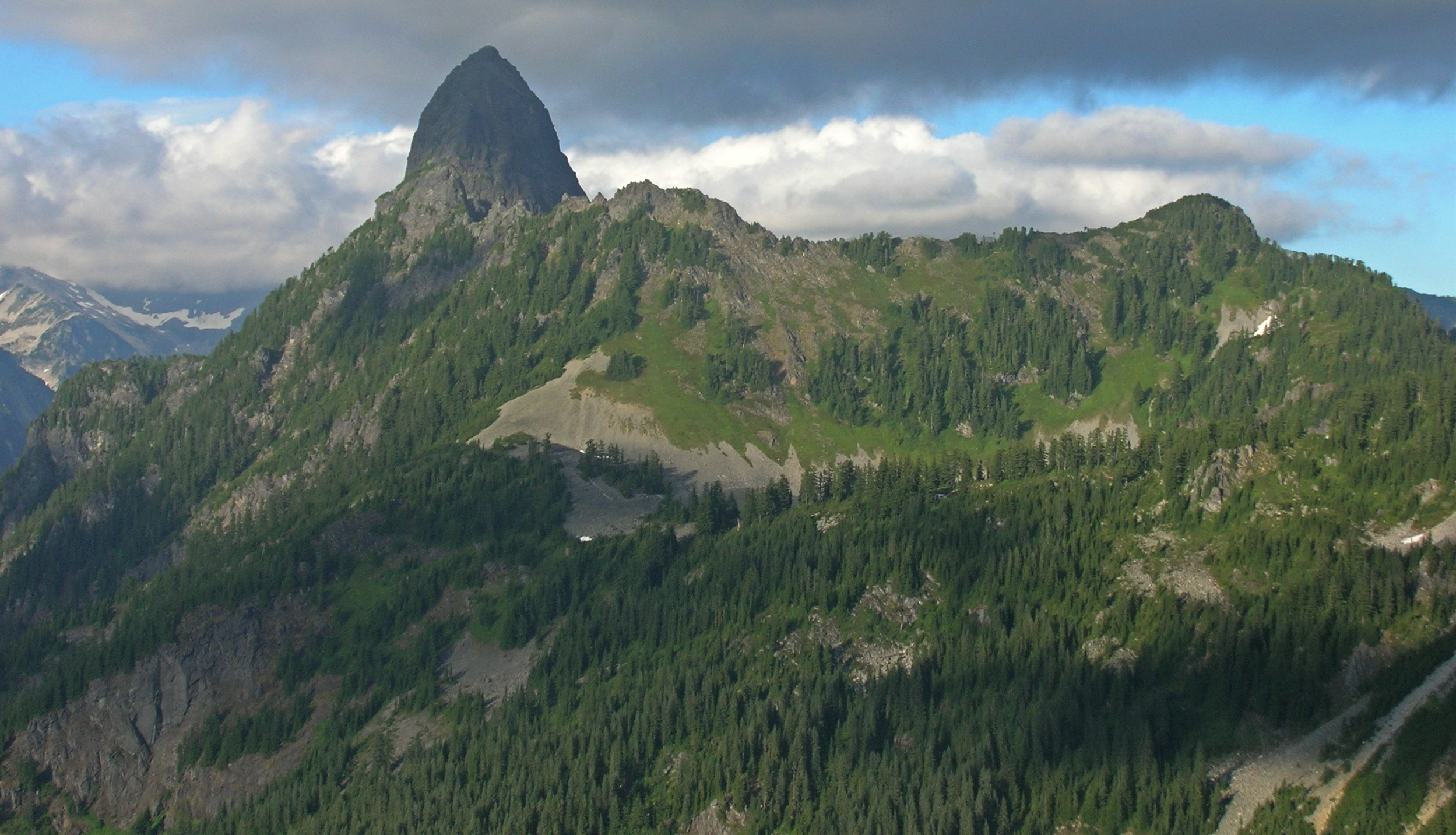 Mount Thomson from Red Pass